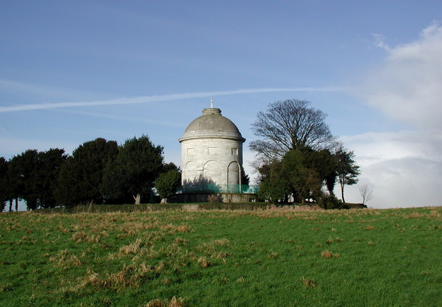 The Constable Mausoleum, Halsham, East Riding of Yorkshire, England.The mausoleum was built over a ten year period between 1790 and 1800 to house the remains of the Constable family, most of whom had left Halsham to take up residence in Burton Constable Hall in the late 15th century.